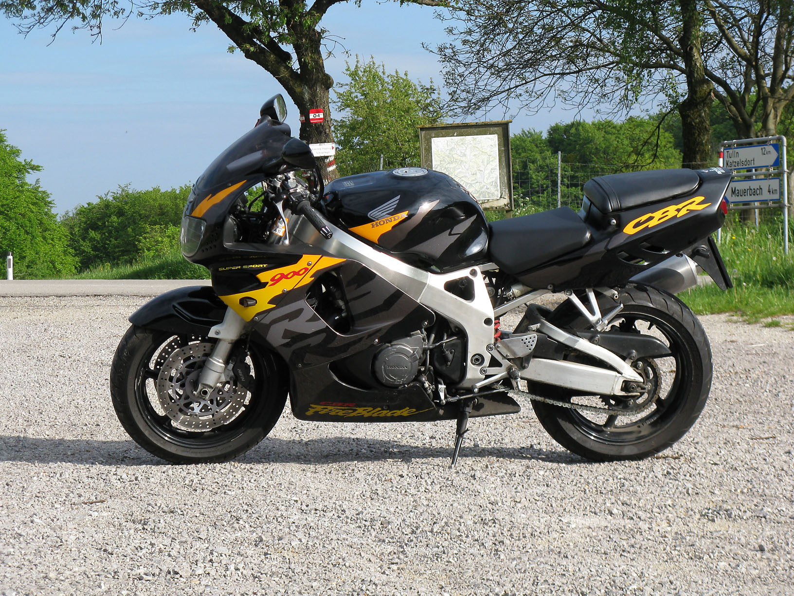 Honda CBR 919 RR SC33 Left Side